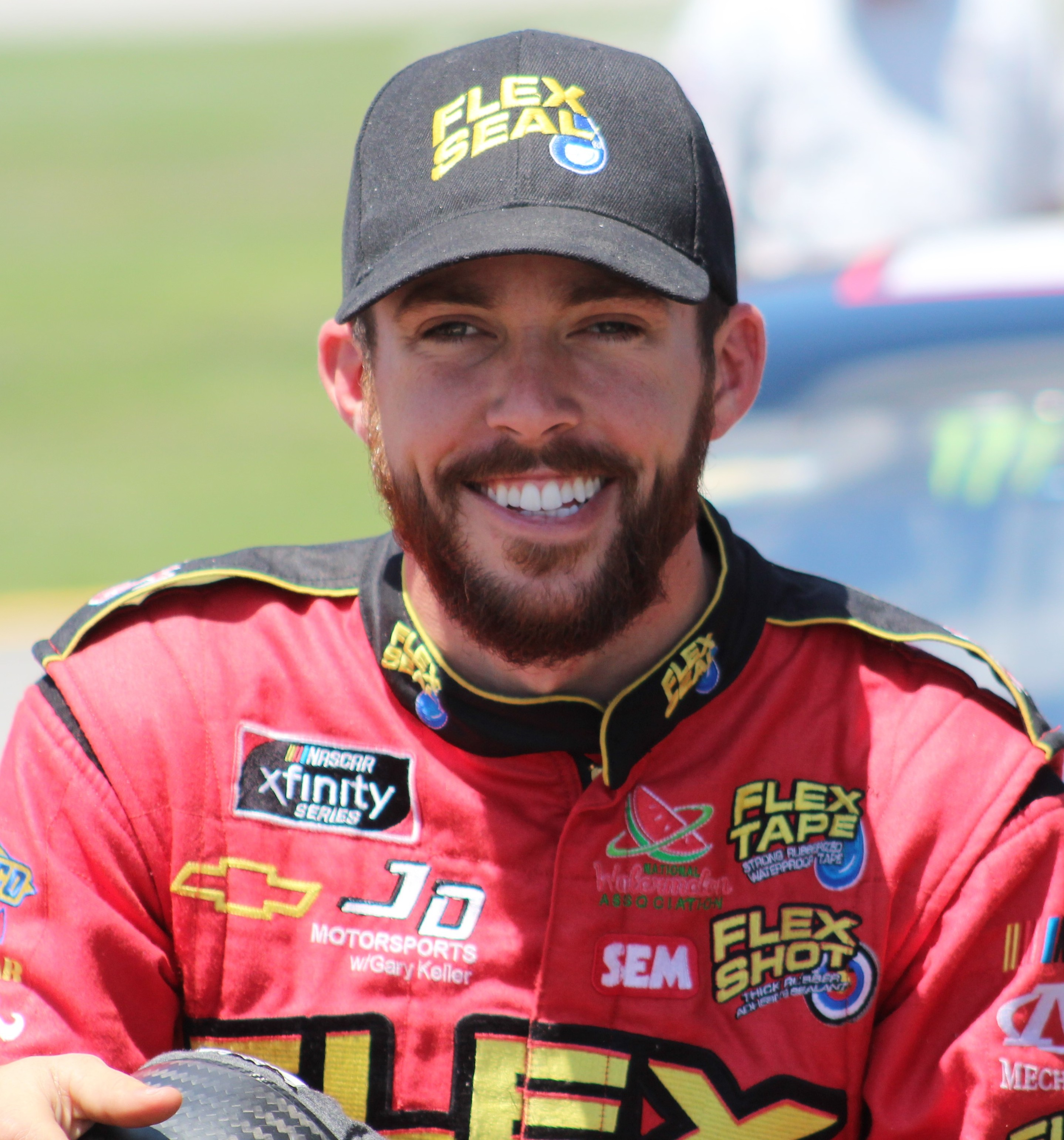 Ross Chastain at Talladega Superspeedway in 2018